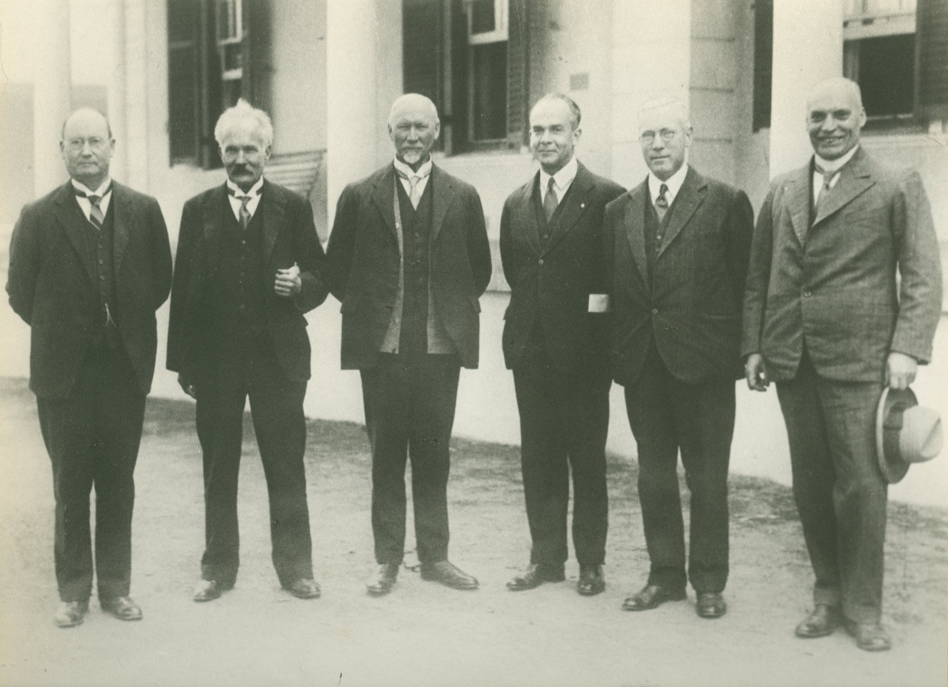 DF Malan, 1874-1959 CJ Langenhoven, 1873-1932 Jan Smuts, 1870-1950 Hendrik Johannes Van der Byl, 1887-1948 Petrus Johannes Du Toit, François Stephanus Malan, 1871-1941